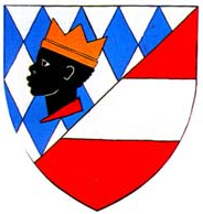 Coat of arms of Neuhofen an der Ybbs, Lower Austria